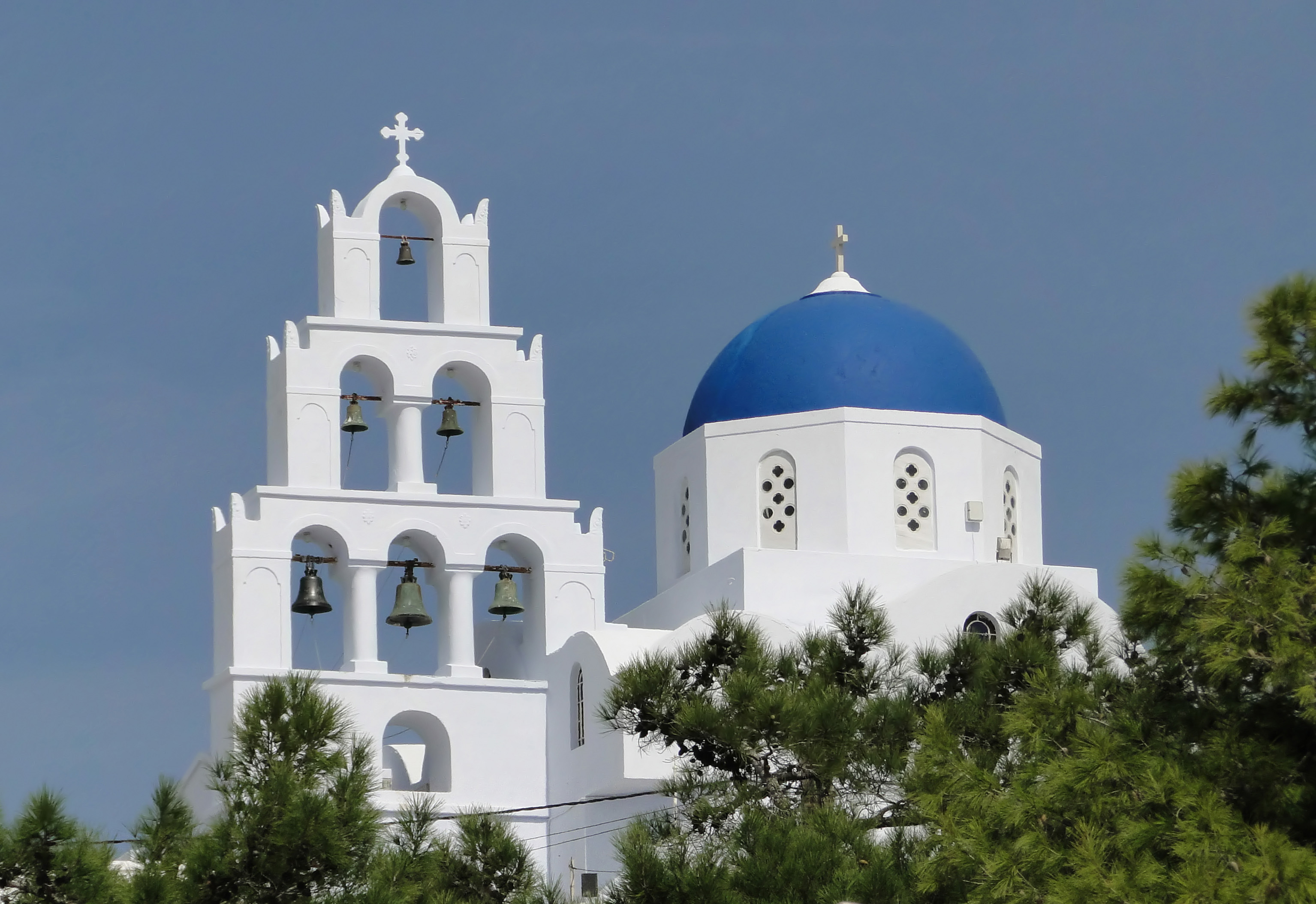 Agia Theodossia Church, Pyrgos, Santorini, Greece